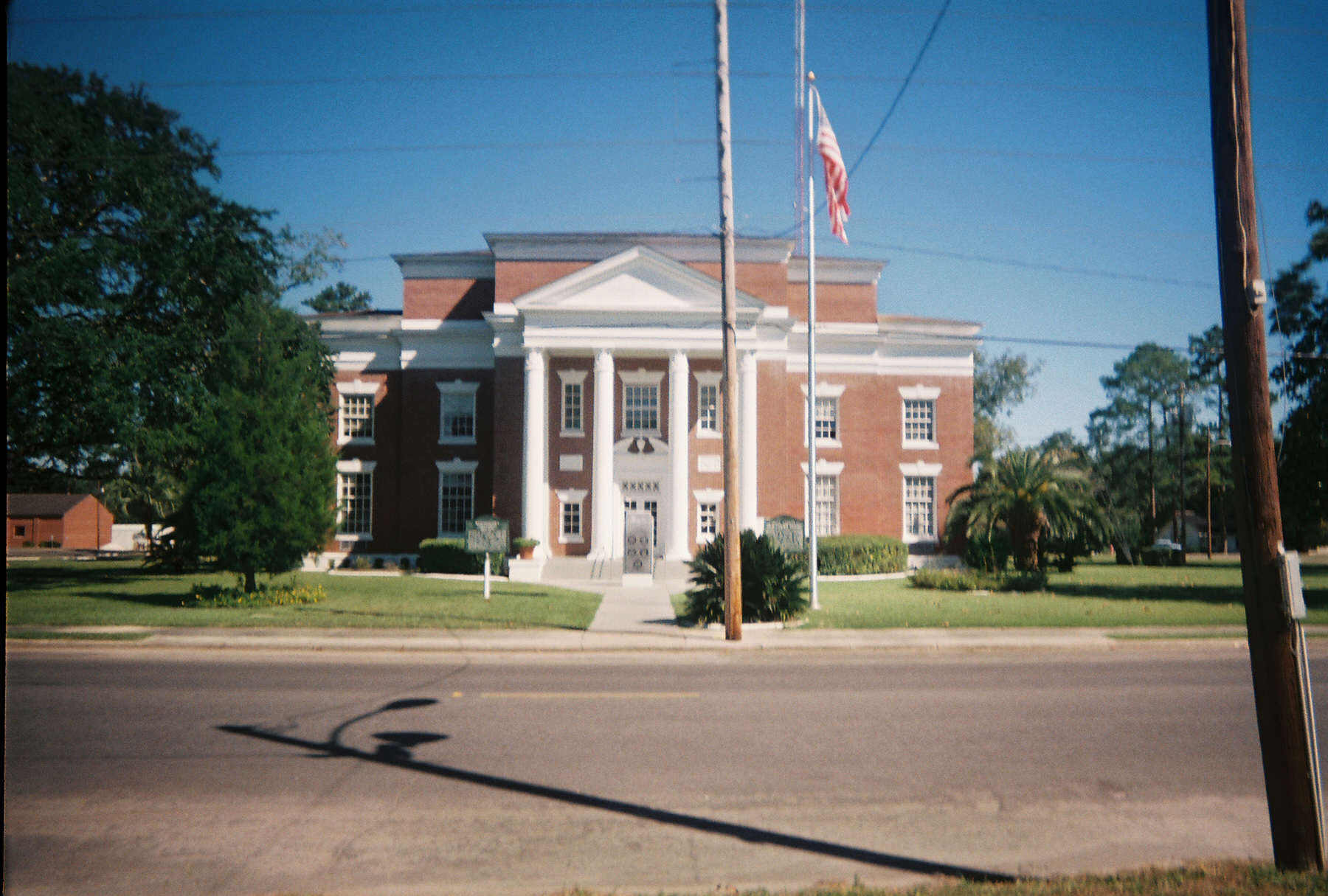 Old Gulf County Courthouse in Wewahitchka, Florida